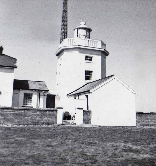 Cromer Lighthouse, Norfolk, taken 1961 When I visited this lighthouse it was still a manned lighthouse and it was possible to go inside up to where the light was to see all the workings, the last bit involved climbing a ladder. It was all very interesting. Before the erection of a lighthouse at Cromer lights for the guidance of vessels were shown from the tower of the parish church, these were small, but served a useful purpose for many years. The present lighthouse, a white octagonal tower standing about ½ mile from the cliff edge, was built in 1833 and converted to electric operation in 1958. In June 1990 the station was converted to automatic operation and is now monitored from the Trinity House Operations Control Centre at Harwich.